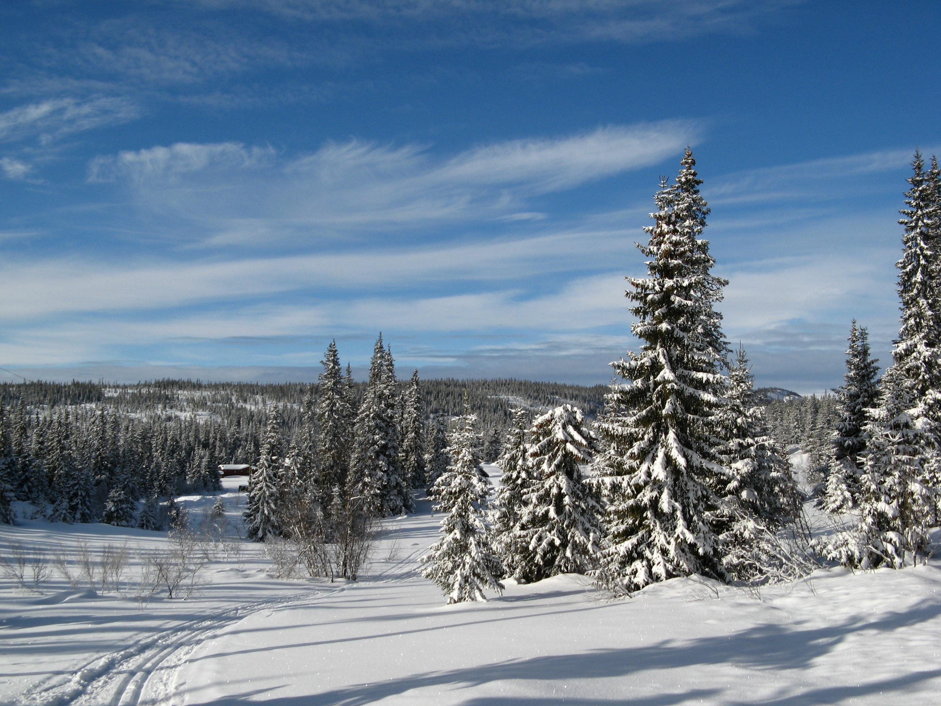 Cross-country skiing / Skilanglauf